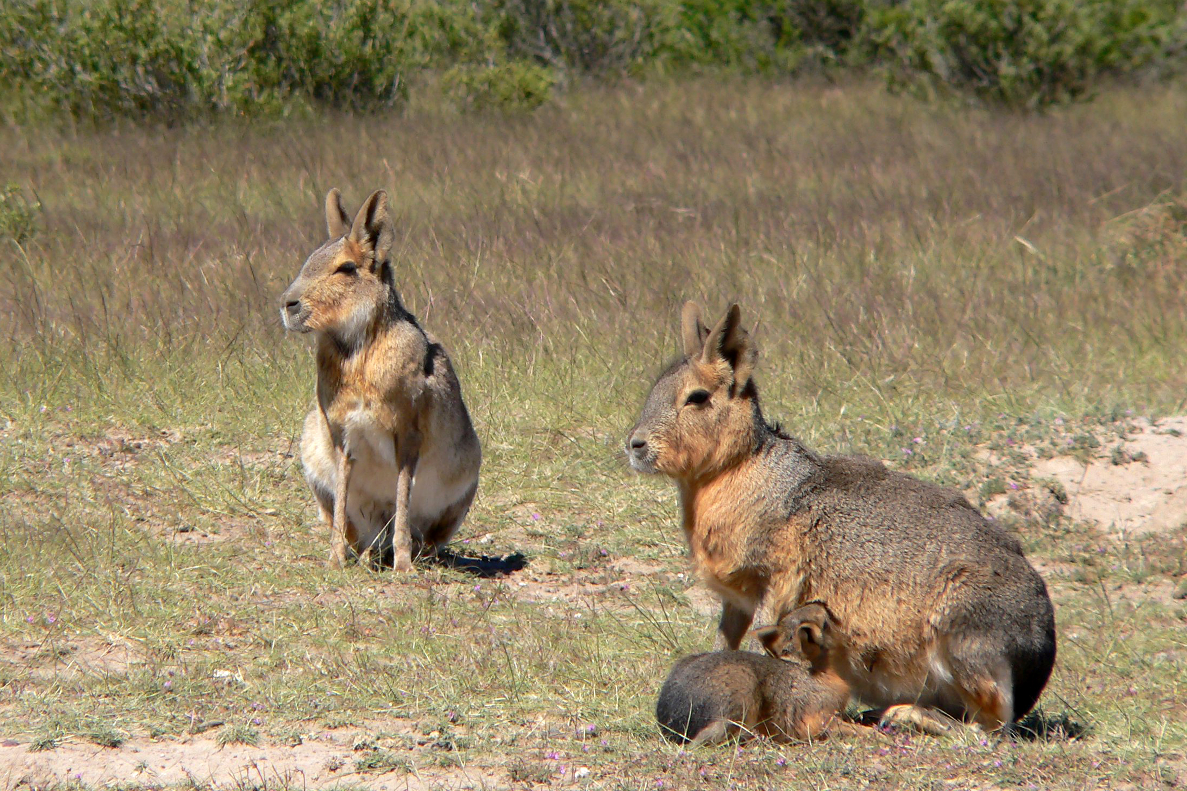 Patagonian maras in Valdes Peninsula, Patagonia.